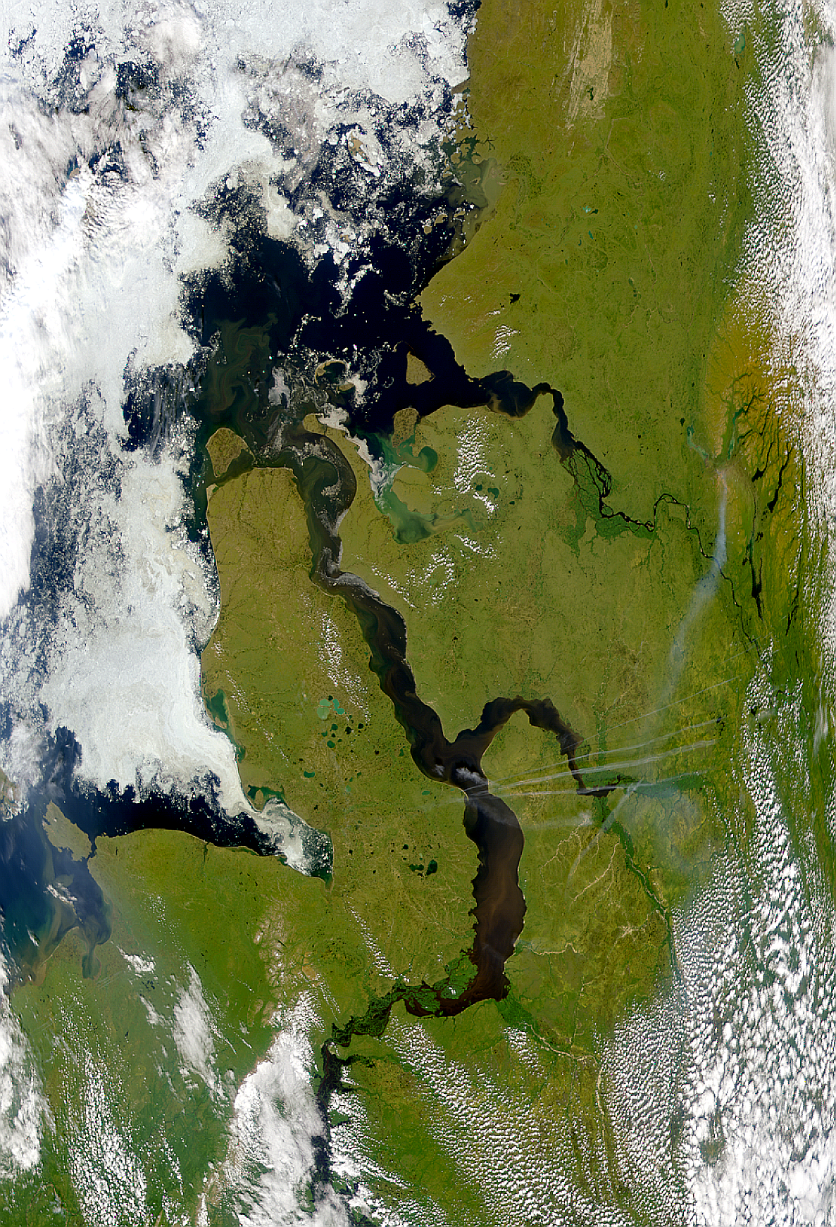 Obskaya Gulf